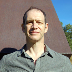 Photo of Mark Gustavson